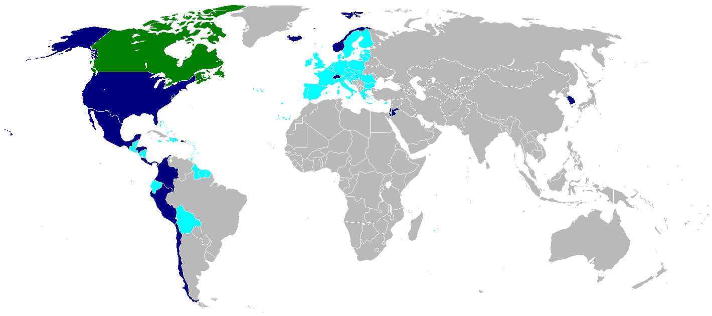 Map of nations Canada have Free Trade Agreements with. Current ones are in dark blue, cyan ones are under negotiations, and Canada is green.